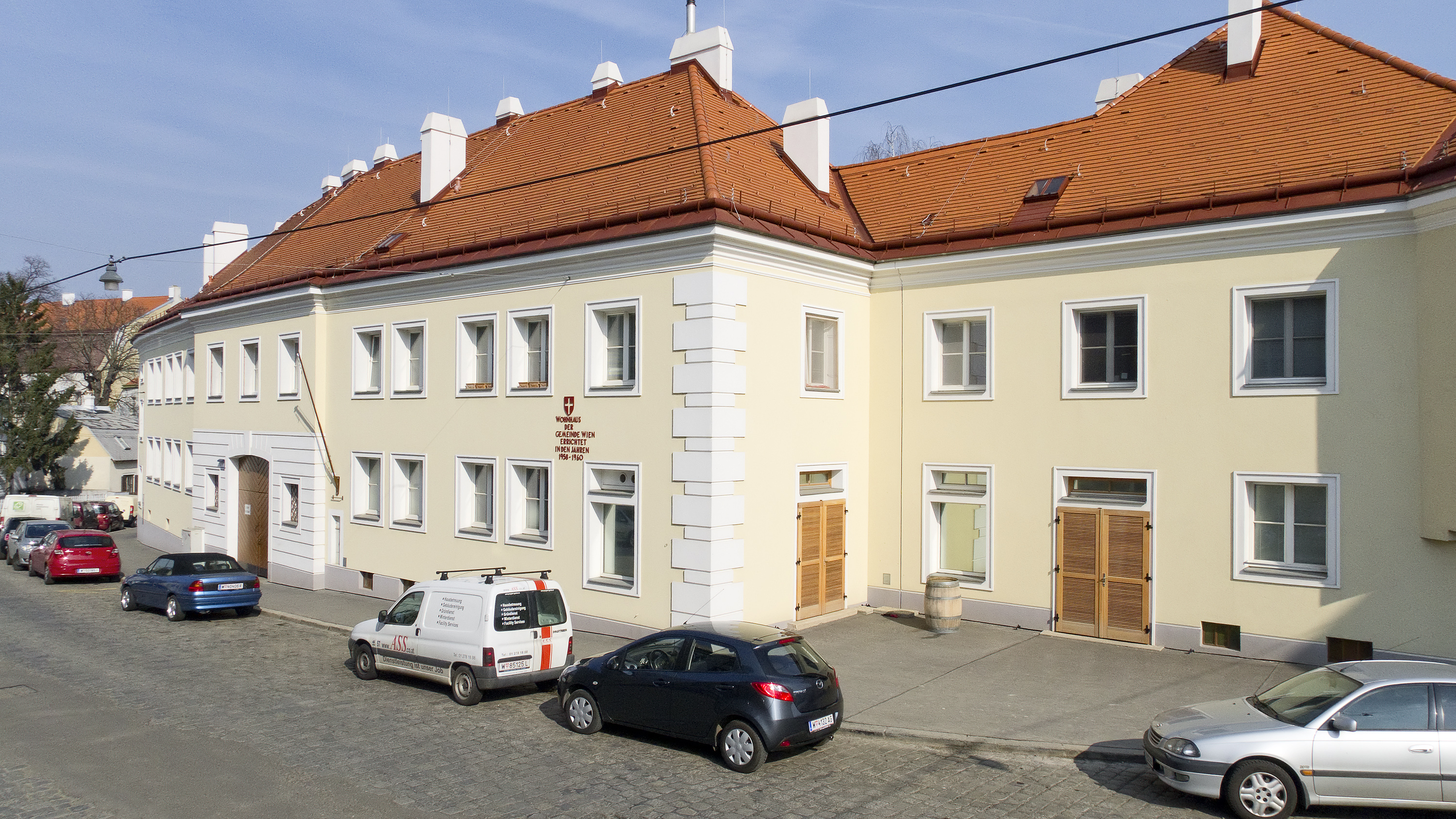 Residential building Edwin-Schuster-Hof in Vienna Döbling